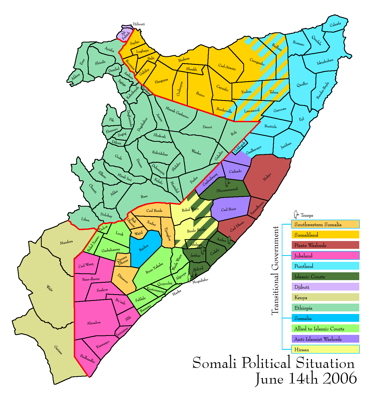 Somali political situation as of June 14, 2006.